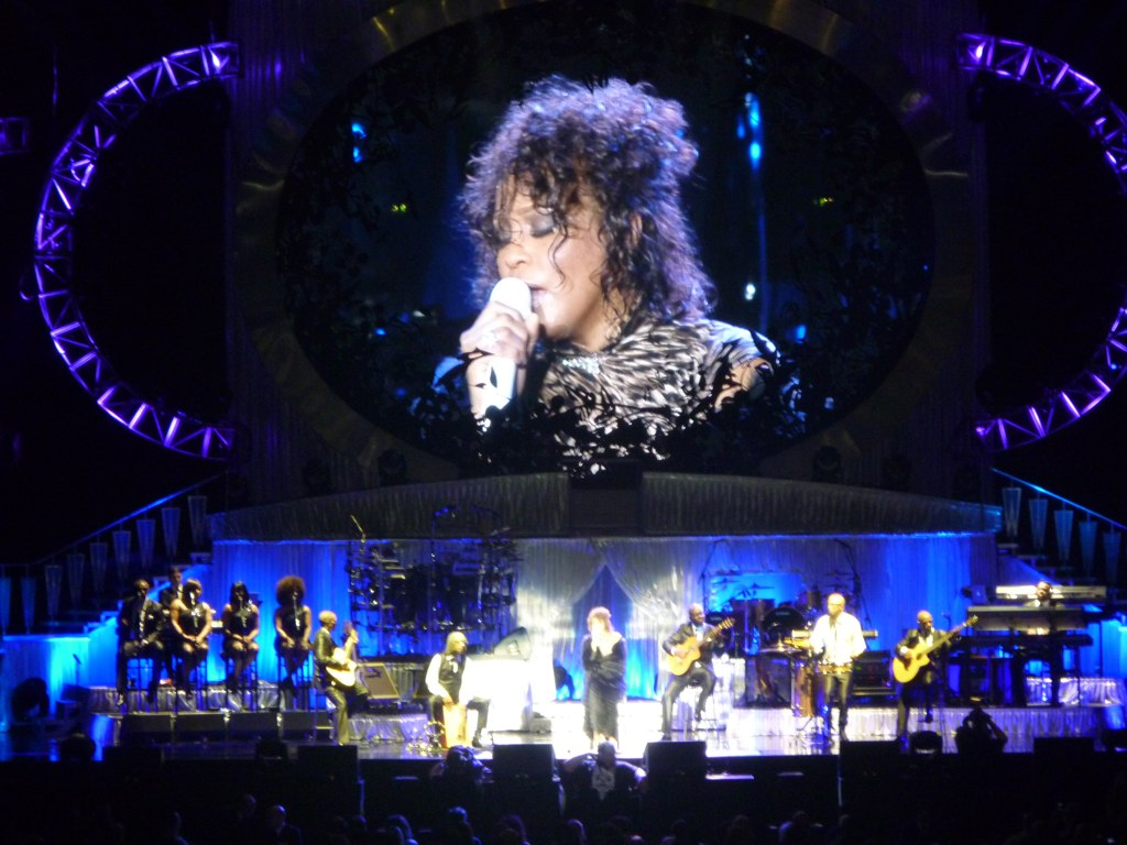 Whitney Houston in Milan.